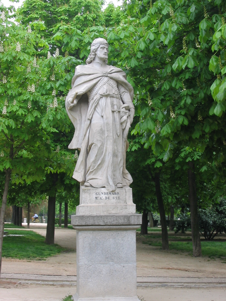 Statue of Visigoth king Gundemar († 612) at the Paseo de la Argentina (a walk) in the Retiro Park (Jardines del Buen Retiro), in Madrid (Spain). Sculpted in white stone by Pedro Lázaro between 1750 and 1753.